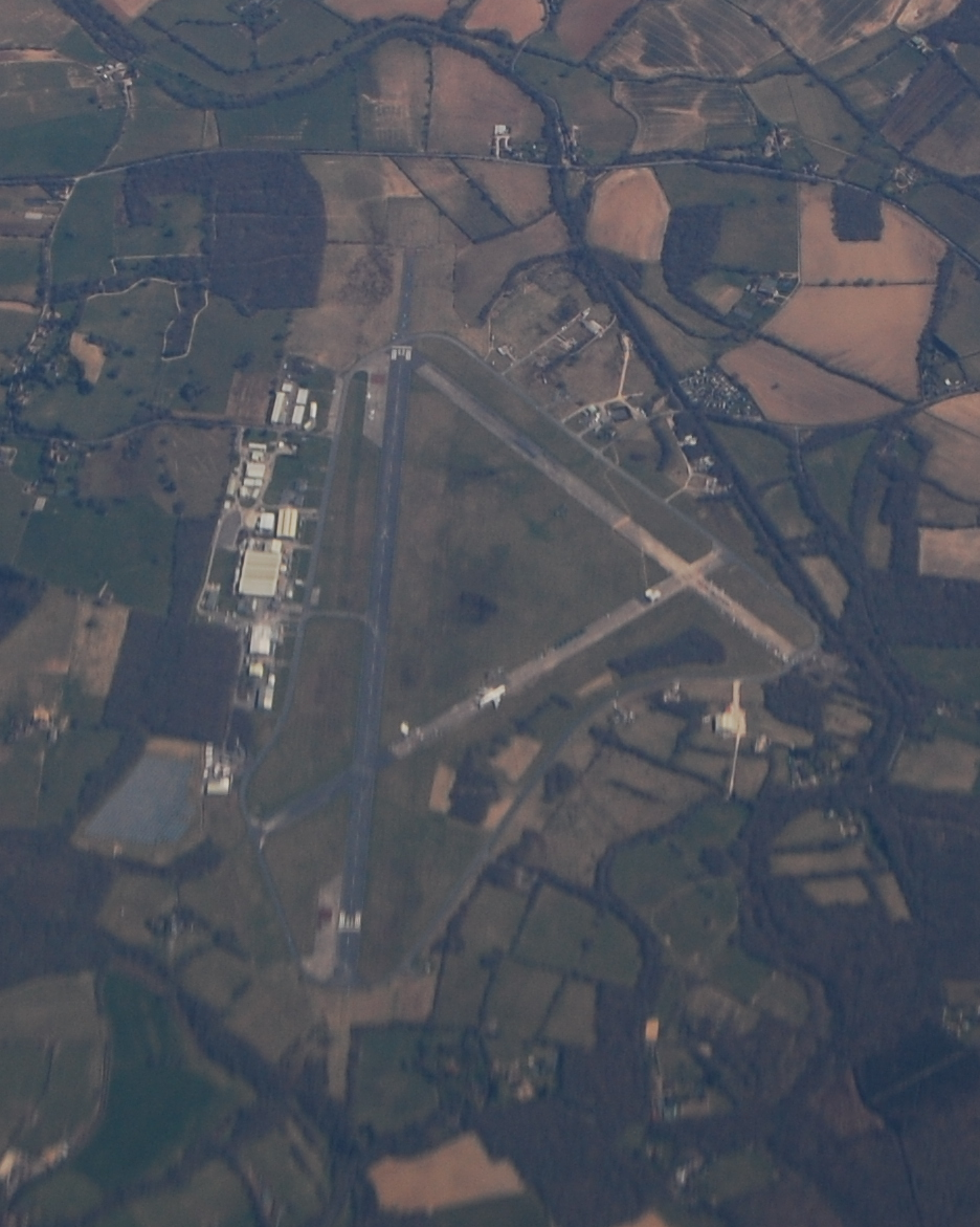 Dunsfold Aerodrome from the air, looking north-west. Taken while on a flight from East Midlands Airport, which shortly afterwards passed over the Isle of Wight. The white aircraft visible on the disused Runway 15/33 is Boeing 747-236B G-BDXJ.